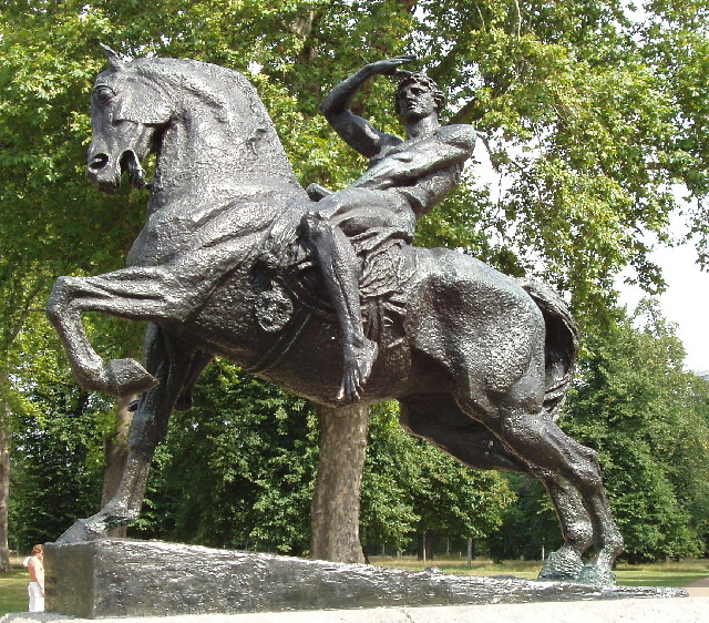 "Physical Energy" sculpture, Kensington Gardens Sculpture by George Frederic Watts (1817-1904). This bronze was cast for Kensington Gardens and placed there in 1907. There are other casts in South Africa and Zimbabwe, and the original model at Watts Gallery, Compton, Surrey .